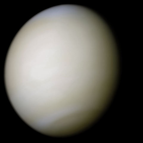 Venus in real colors, processed from clear and blue filtered Mariner 10 images. Source images are in the public domain (NASA) Images processed by Ricardo Nunes, downloaded from